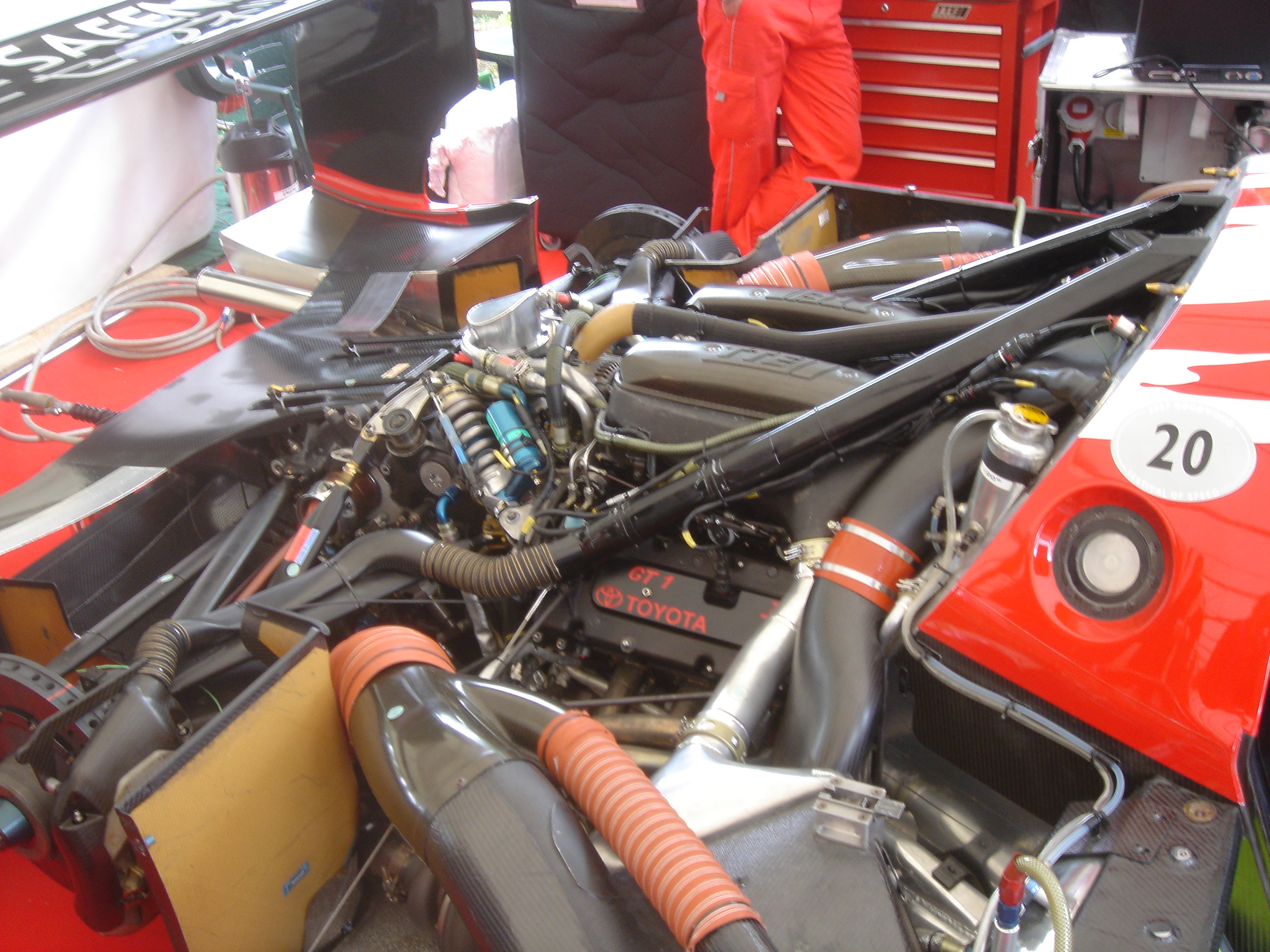 Goodwood Festival of Speed 2007 - Toyota GT-One (1998) motor cover removed